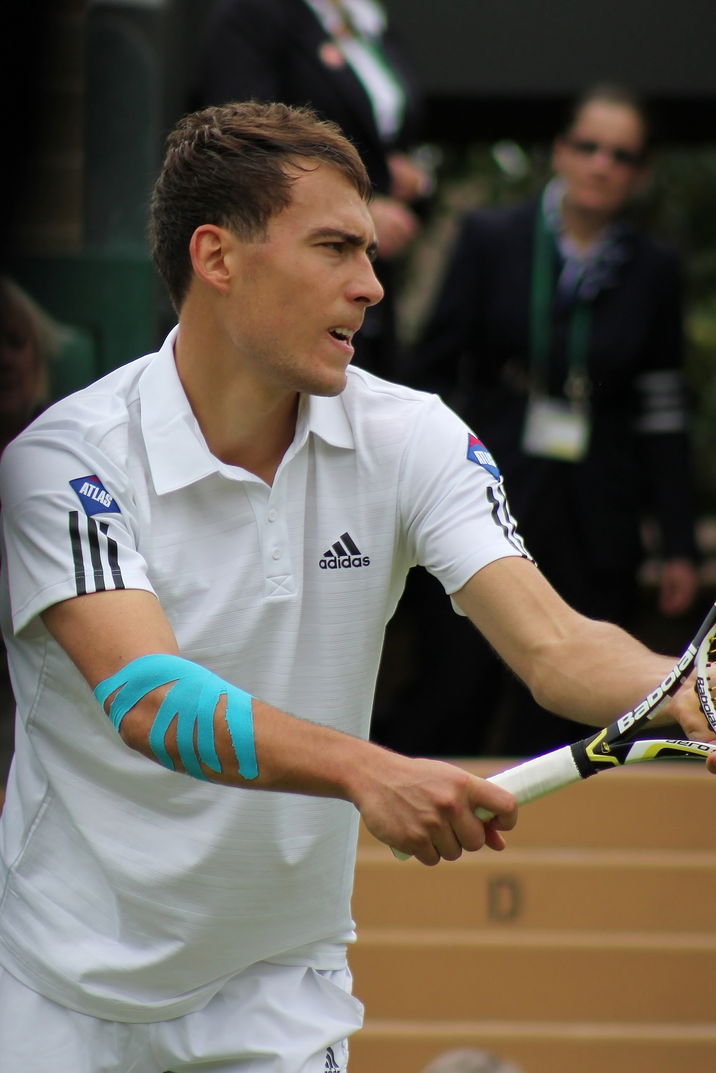 Jerzy Janowicz playing in the Mens Singles at Wimbledon 2013, Court 3 on 24 June 2013; opponent was Kyle Edmond (GBR). Janowicz won 6/2, 6/2, 6/4 and went on to reach the Semi-Final.